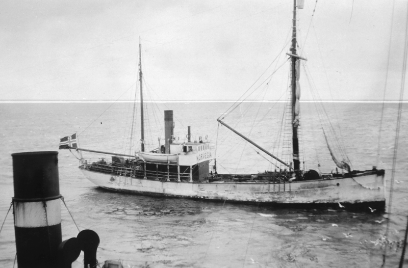 Norwegian polar vessel Norvegia, ex. Vesleper (1919).